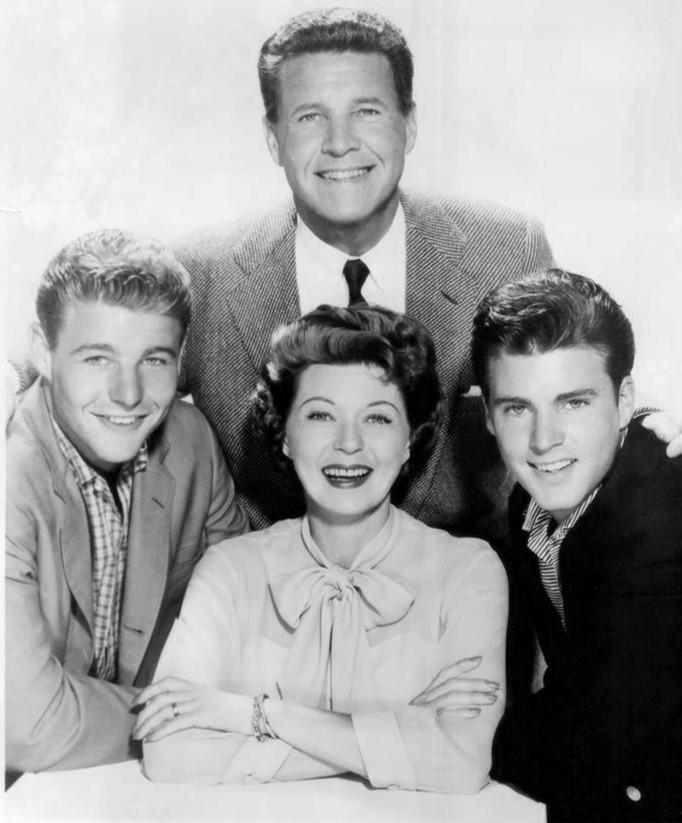 Cast/family photo of the Nelsons from the television program The Adventures of Ozzie and Harriet. From left: David, Ozzie, Rick, and Harriet in the center.